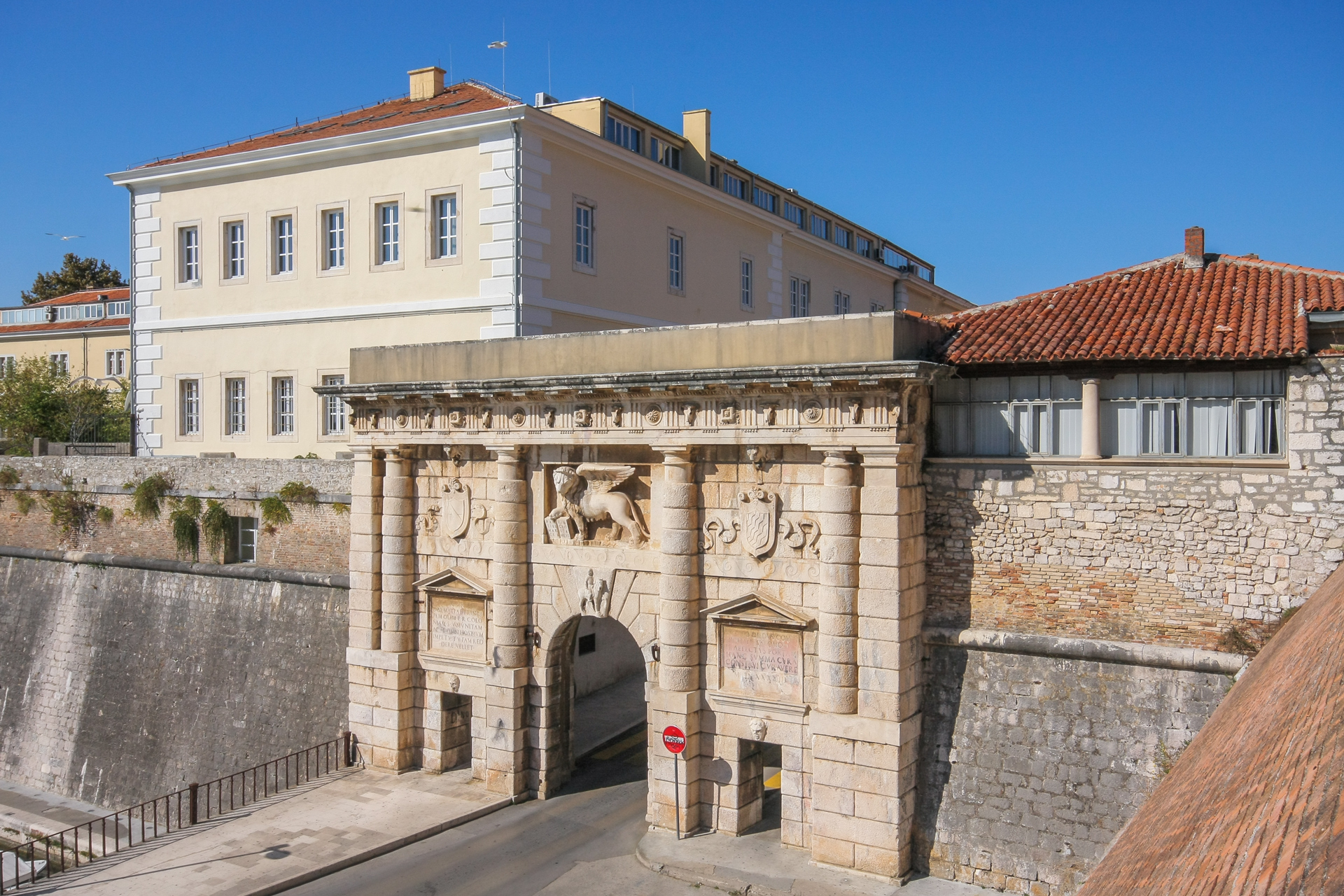 The "Kopnena vrata" (Landward Gate) with the Lion of Saint Mark, Zadar, Croatia